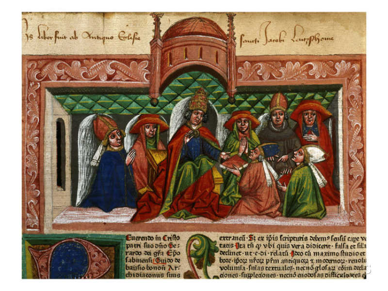 Pope Nicholas V receiving book for Vatican Library round 1450